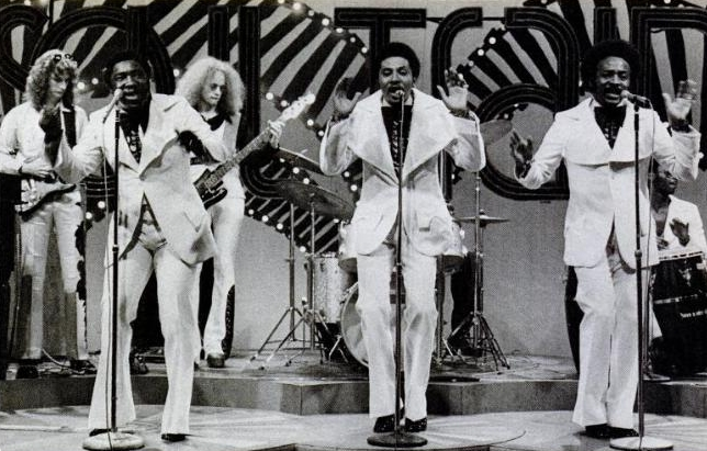 Photo of the O'Jays performing on the television program Soul Train.